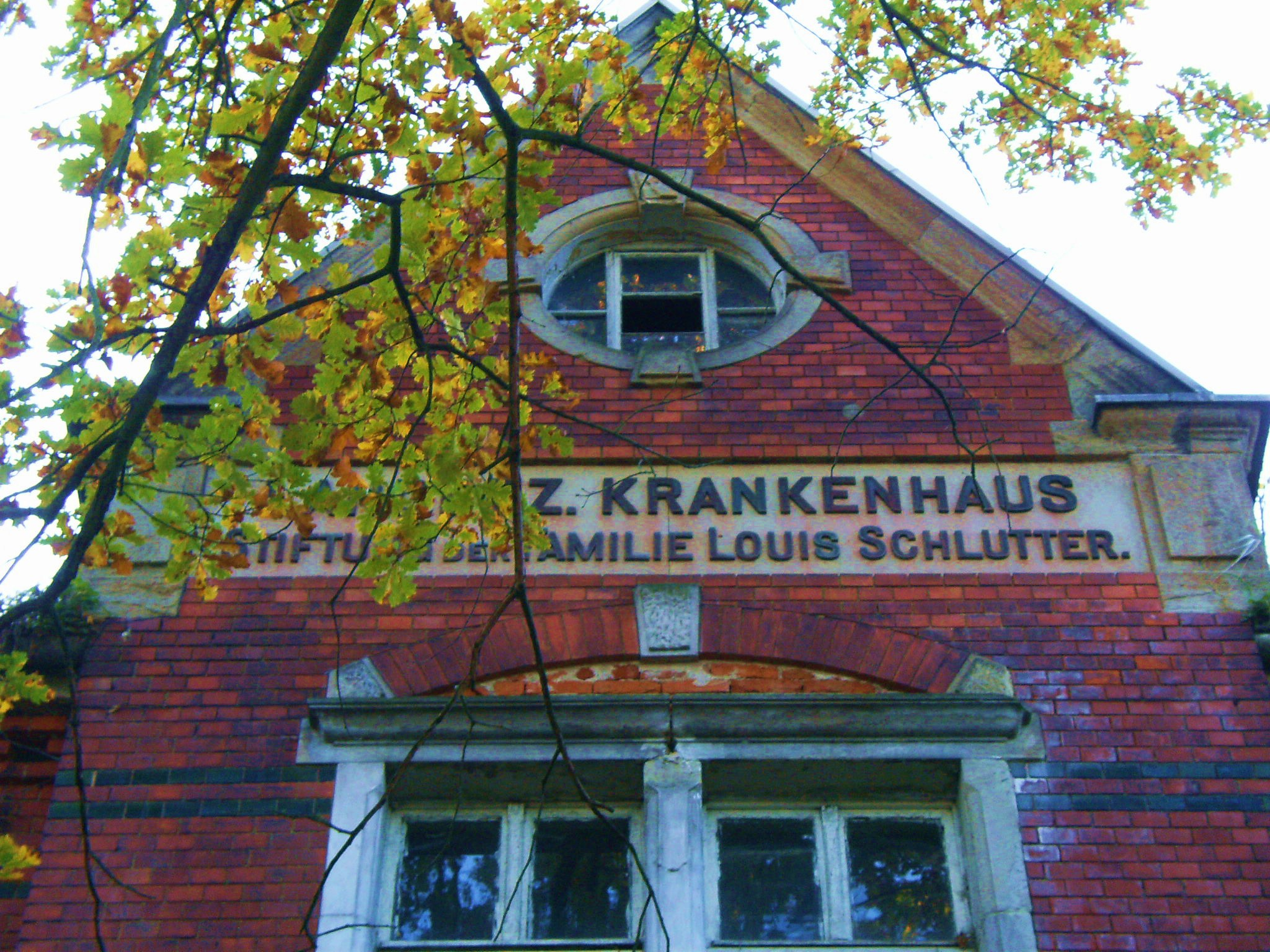 Gera-Milbitz: Former main building of the hospital in Milbitz, October 2008.